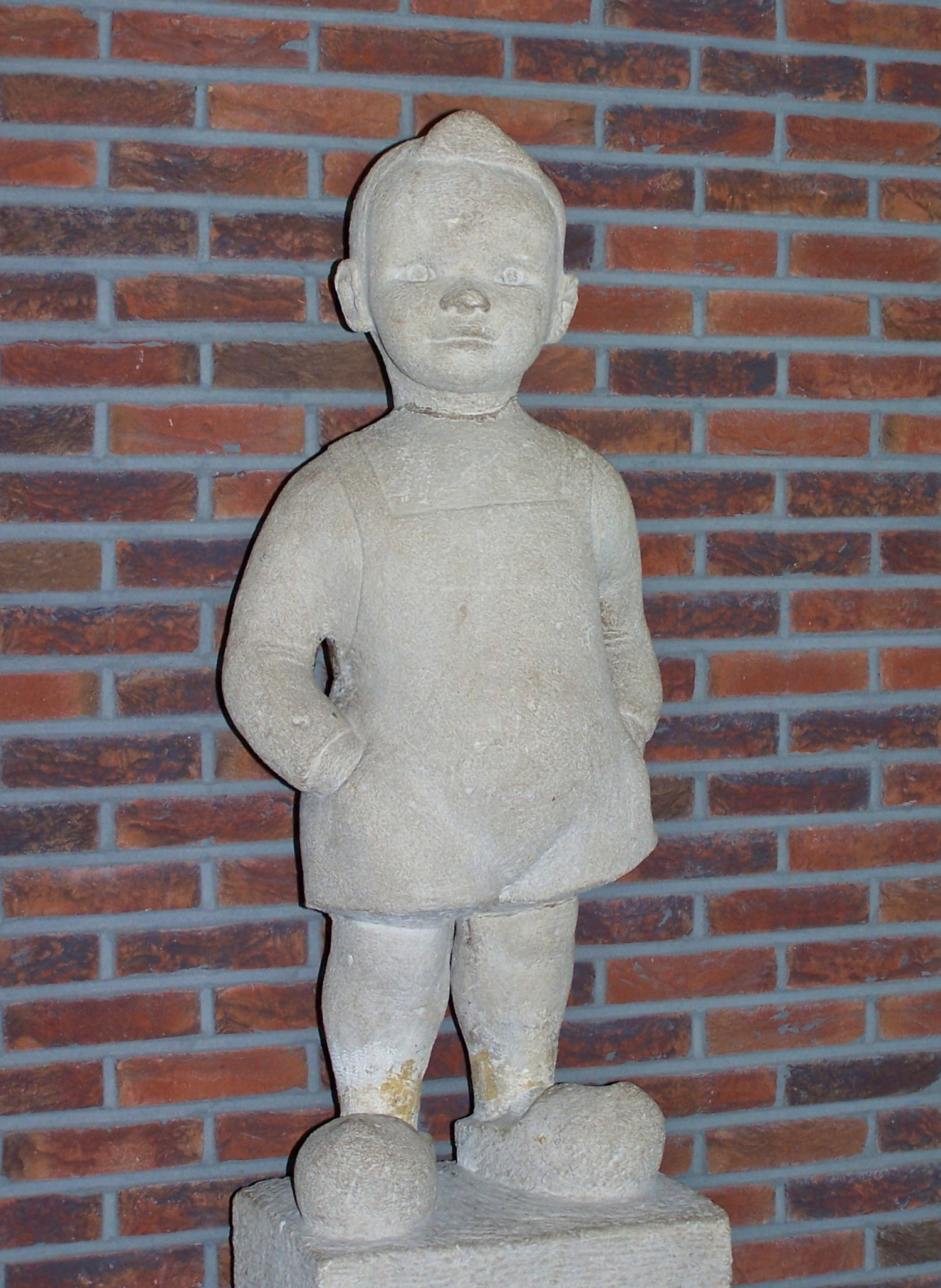 Bartje (original limestone version) in Assen, by Suze Boschma-Berkhout